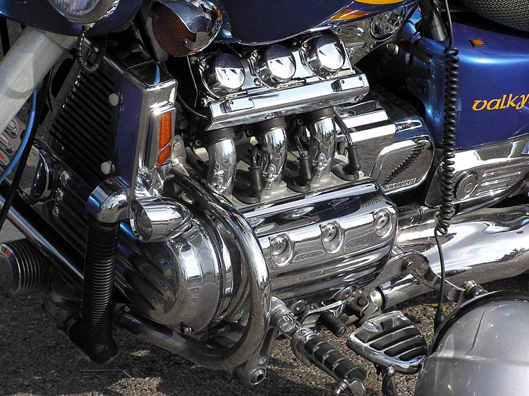 The Flat-6 engine of the Honda Valkyrie motorcycle, seen at Aust Services, Bristol, England. The radiator is on the left of the picture. Taken by Adrian Pingstone in October 2004 and released to the public domain.